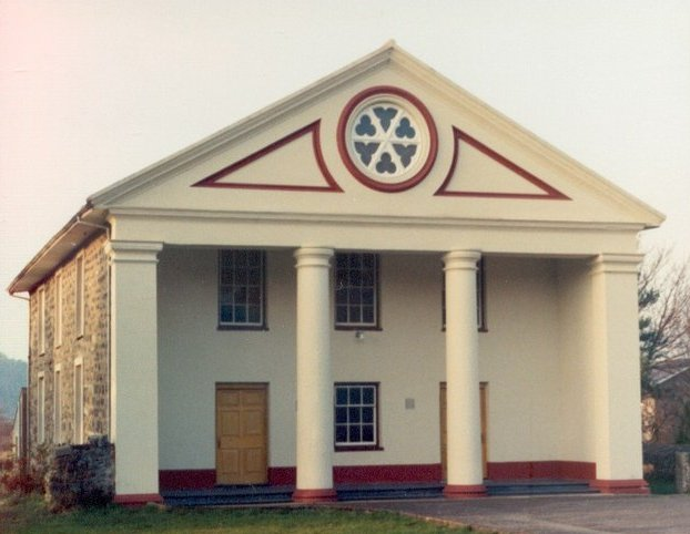 Capel Peniel This Welsh Presbyterian chapel in Tremadog was built by local nonconformists with the support of W.A.Madocks who planned and built the village on land he had reclaimed from the sea.